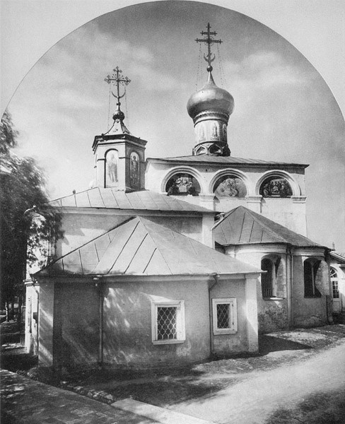 Churches of St. Demetrios and Martyr Nikita in Nikitsky Convent, Moscow.